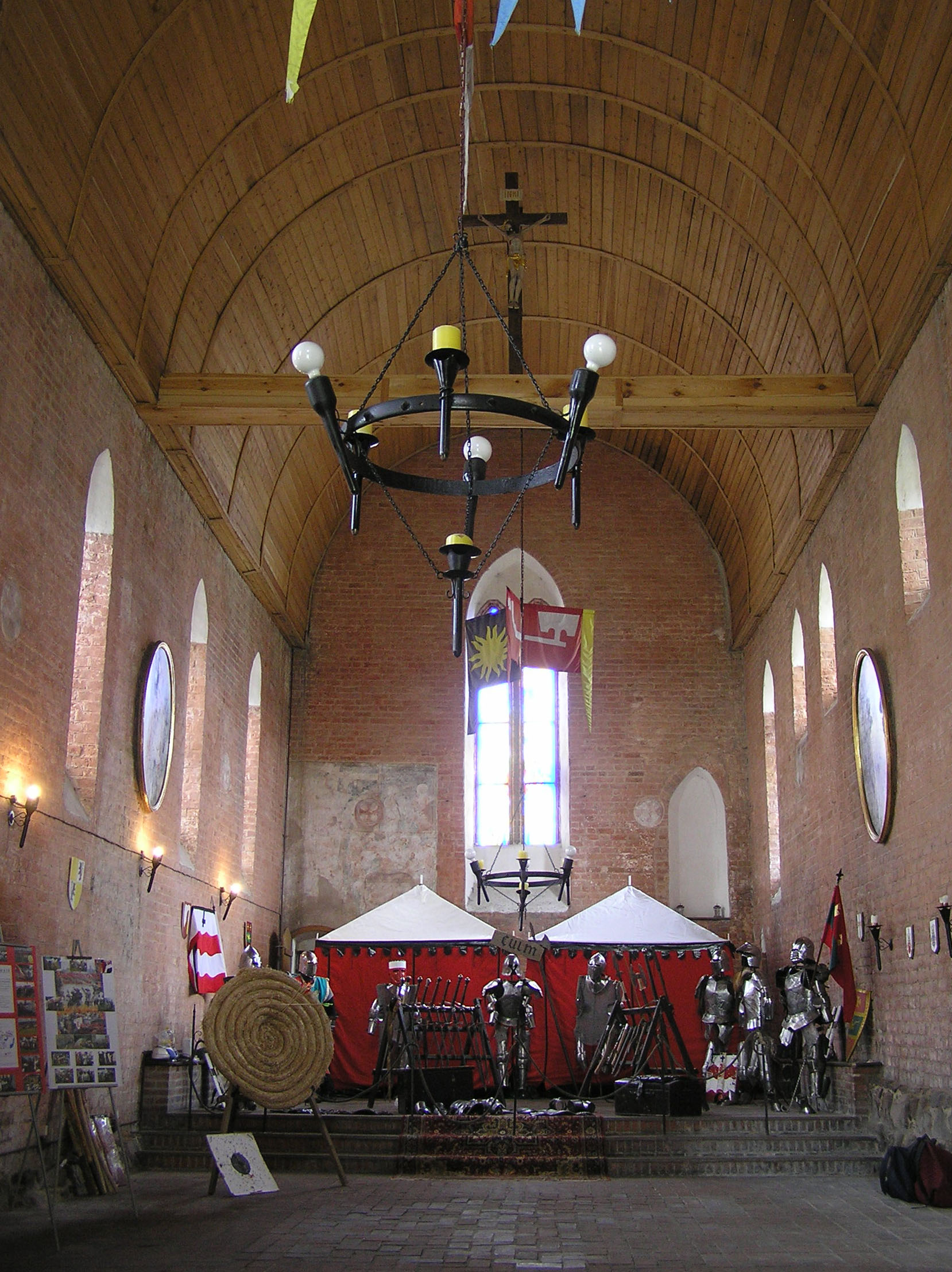 Chełmno, Holy Spirit church, interior